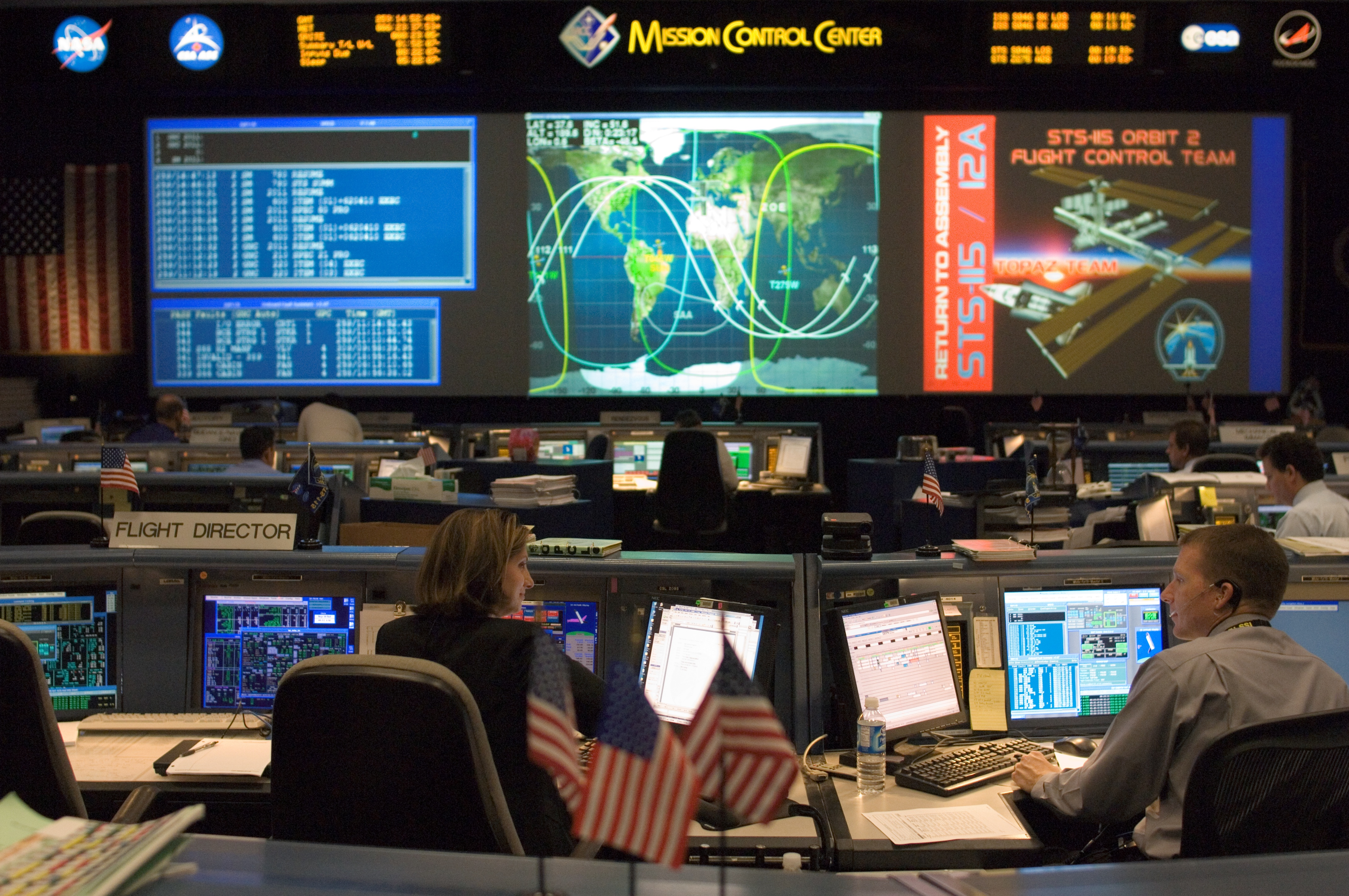 Flight director Catherine A. Koerner (left foreground) and astronaut Terry W. Virts, Jr., spacecraft communicator (CAPCOM), monitor data at their consoles in the Shuttle (White) Flight Control Room of Houston's Mission Control Center during STS-115 flight day eight activities.